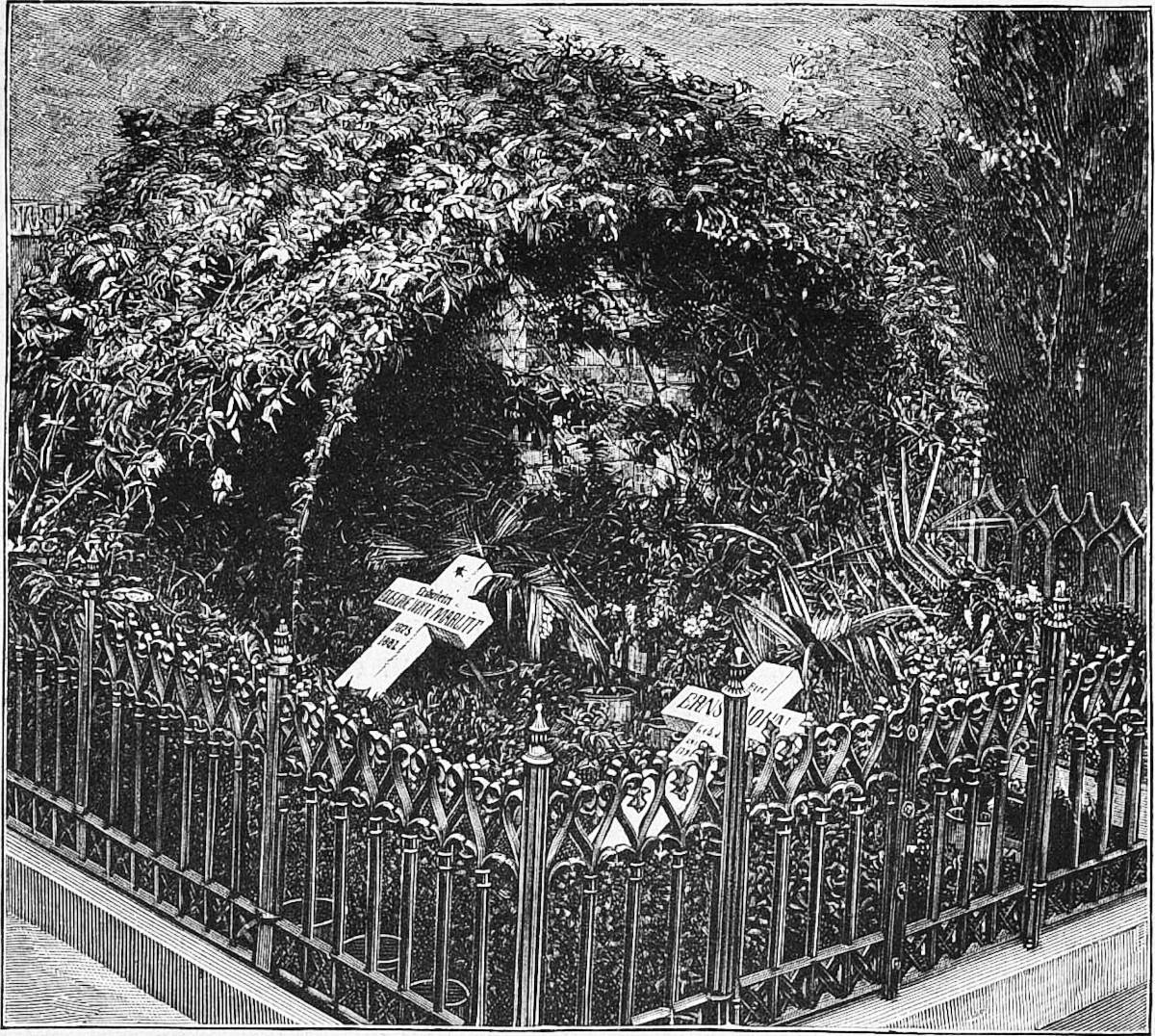 caption: " Das Grab der Marlitt auf dem Friedhofe von Arnstadt."